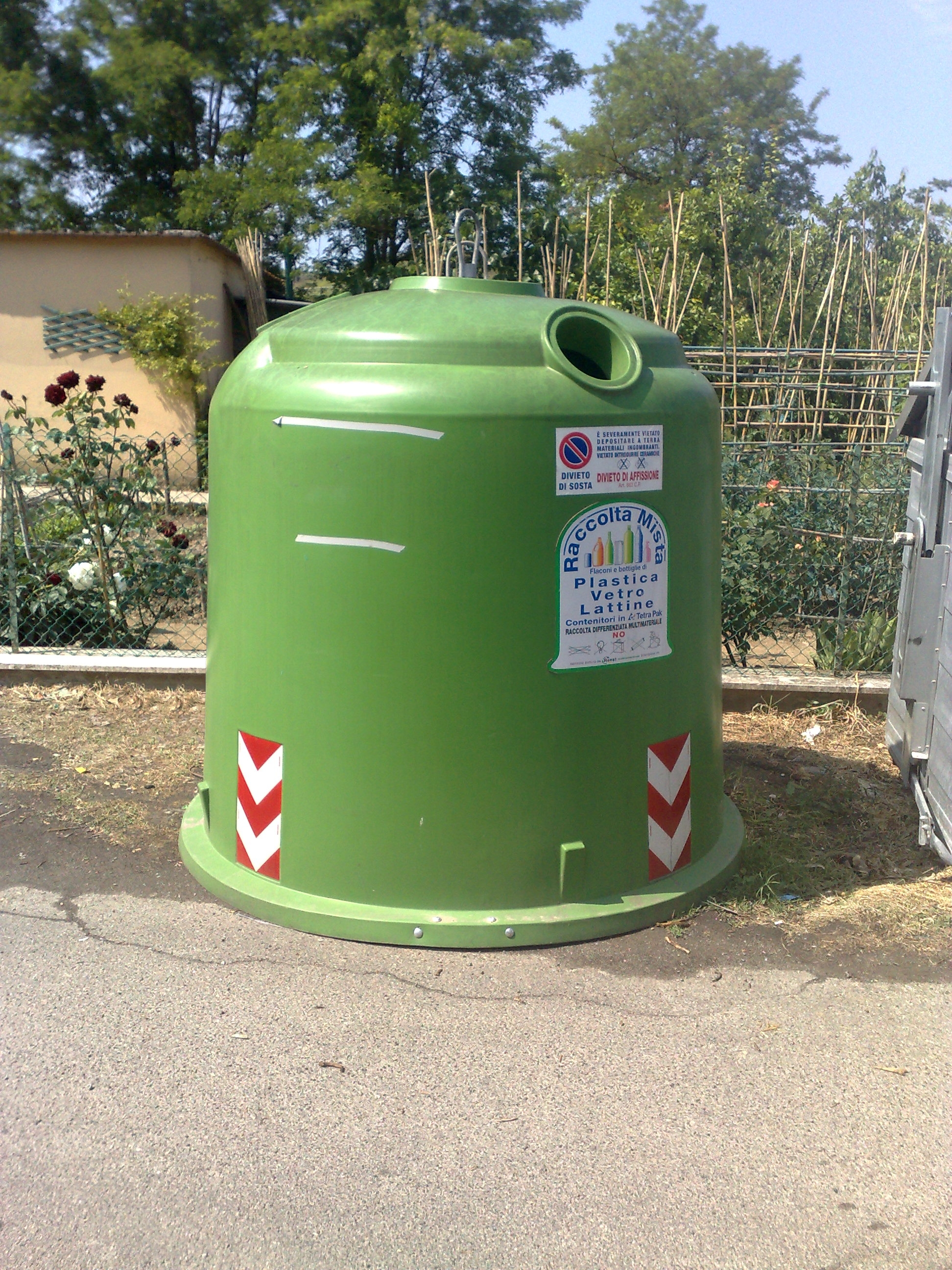 Sorted waste container for glass, plastic and metal